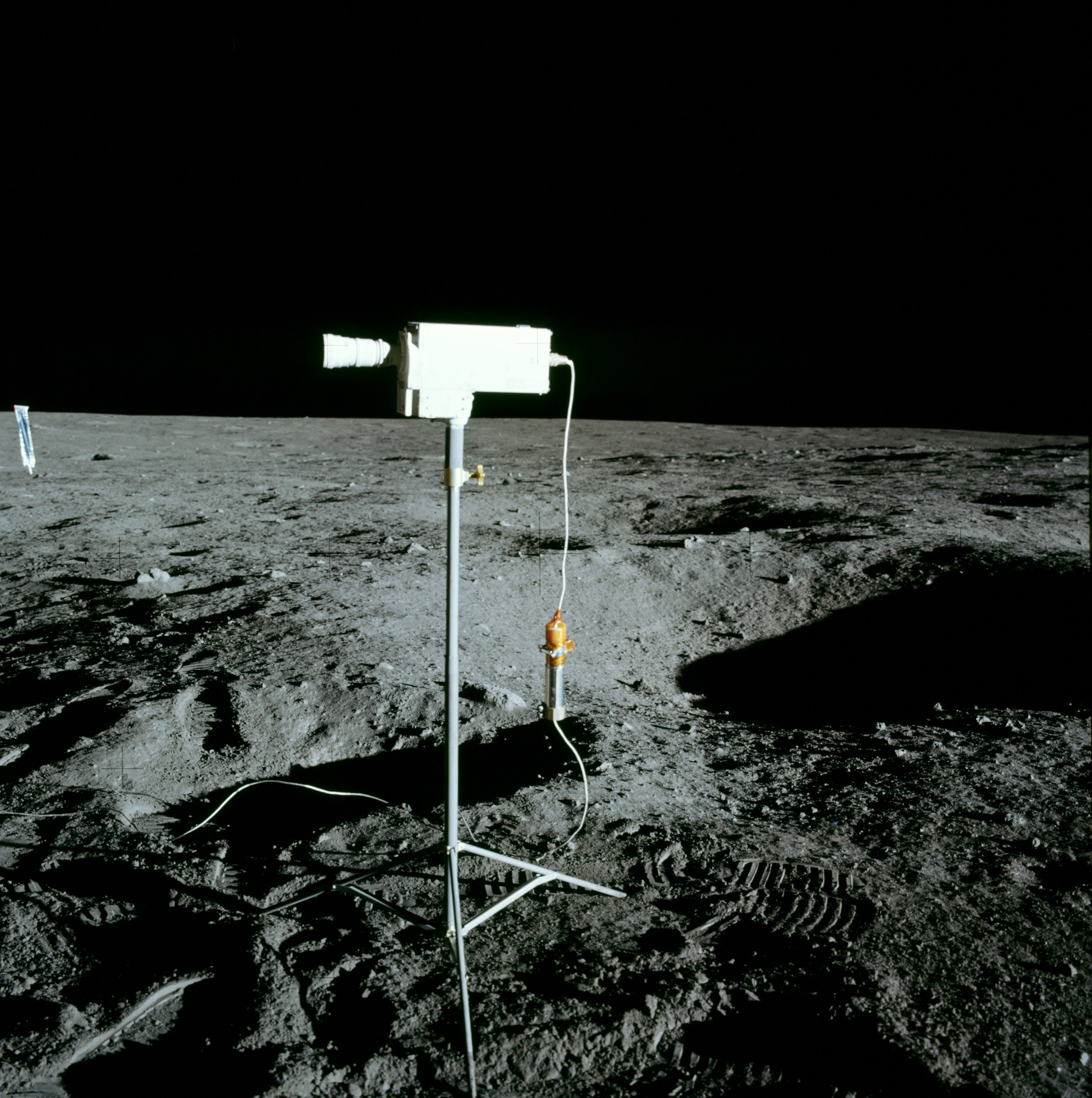 Close-up of the TV camera, with the Solar Wind Collector (SWC) at the left edge of the picture. Note the loop in the TV cable running off to the left.